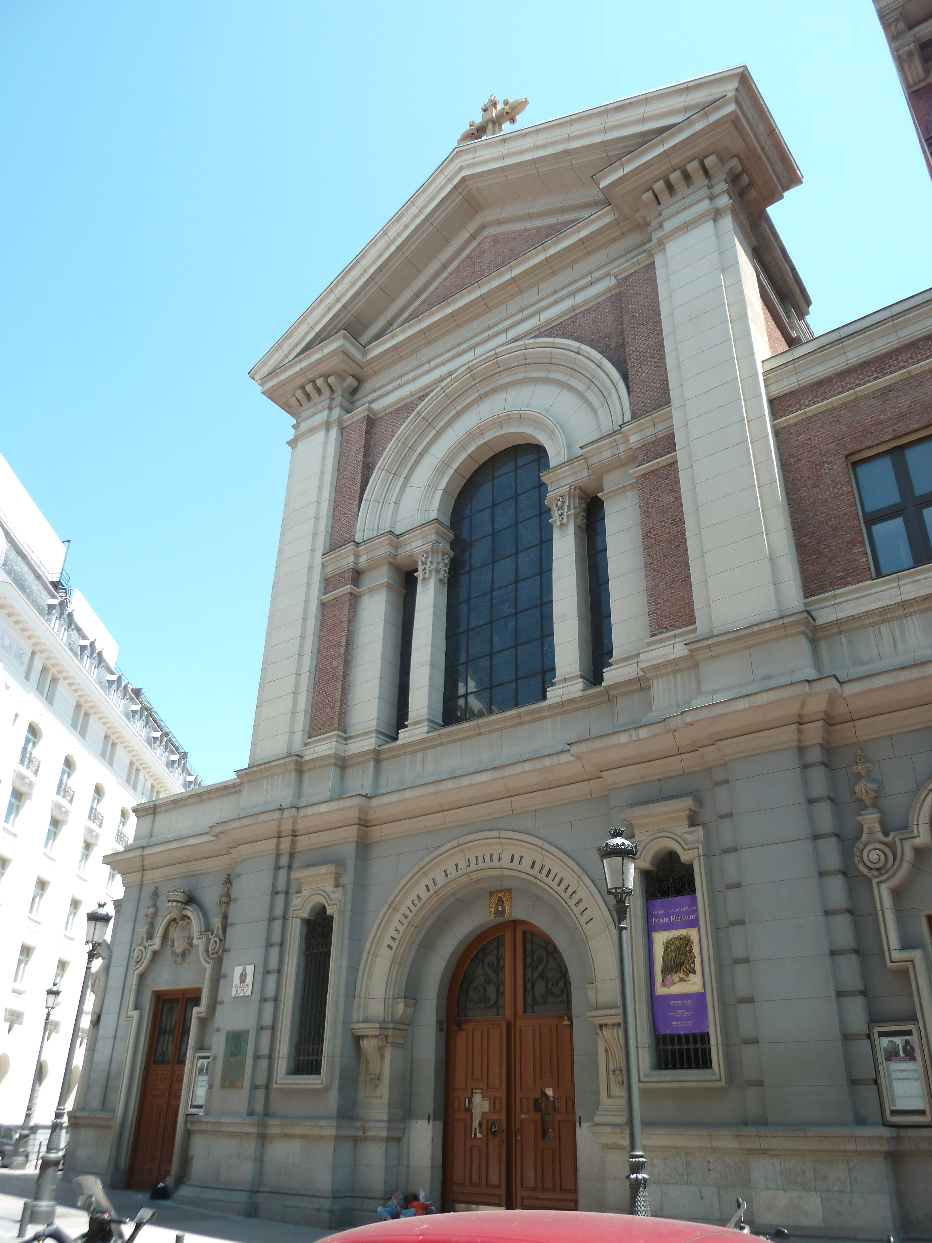 West façade of Basílica de Jesús de Medinaceli in Madrid (Spain).